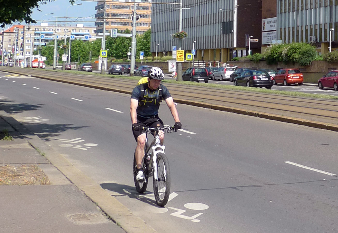 Picto corridor, something like US & CA shared lane marking in Vršovická road, Prague, CZ